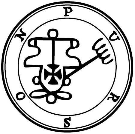 Purson seal, THE BOOK OF THE GOETIA OF SOLOMON THE KING (1904)